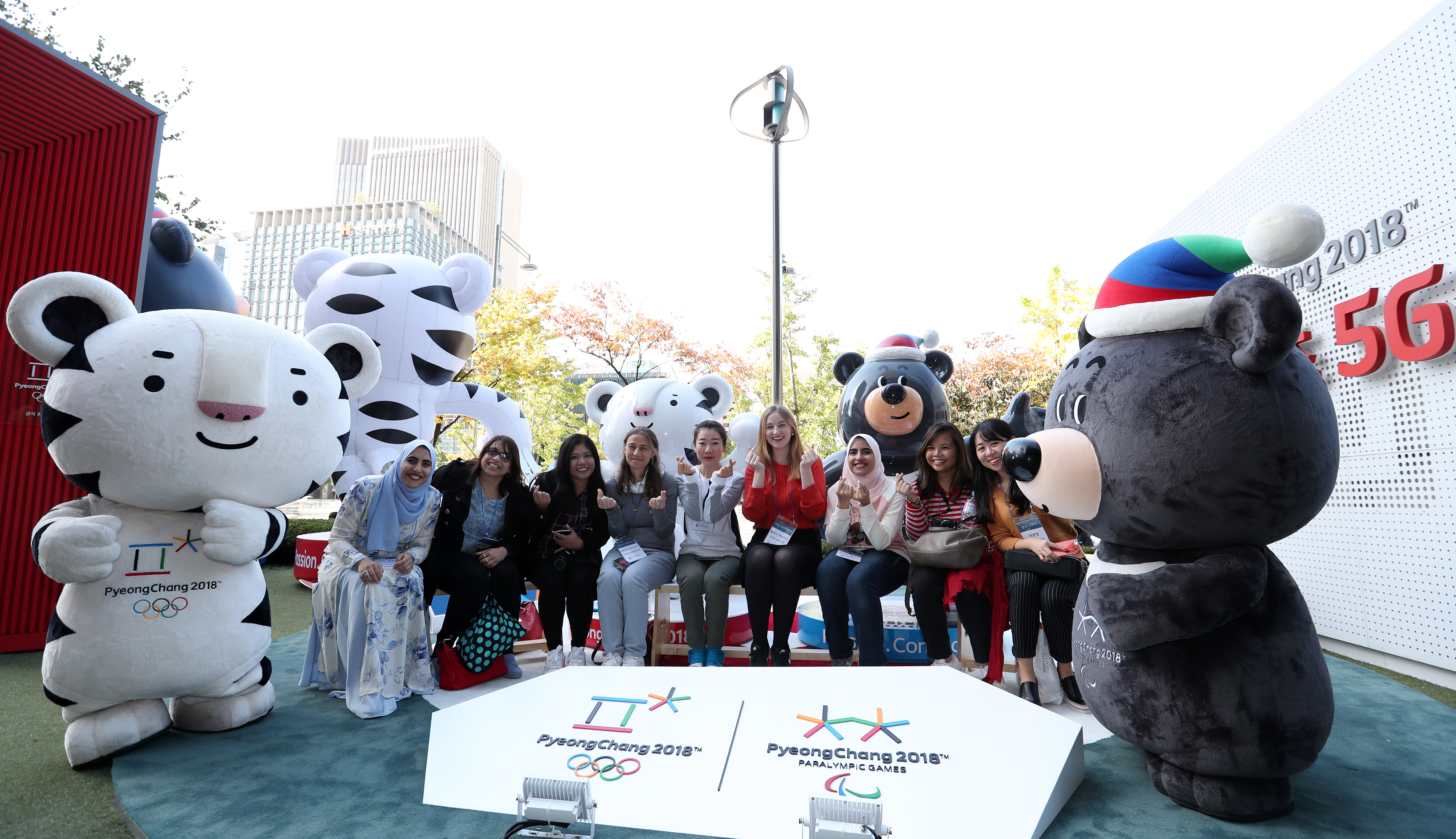 Honorary Reporters Tour in Seoul October 24. 2016 Seoul Ministry of Culture, Sports and Tourism Korean Culture and Information Service ( Official Photographer : Jeon Han This official Republic of Korea photograph is being made available only for publication by news organizations and/or for personal printing by the subject(s) of the photograph. The photograph may not be manipulated in any way. Also, it may not be used in any type of commercial, advertisement, product or promotion that in any way suggests approval or endorsement from the government of the Republic of Korea. 코리아넷 명예기자단 한국탐방 2016-10-24 서울 문화체육관광부 해외문화홍보원 코리아넷 전한